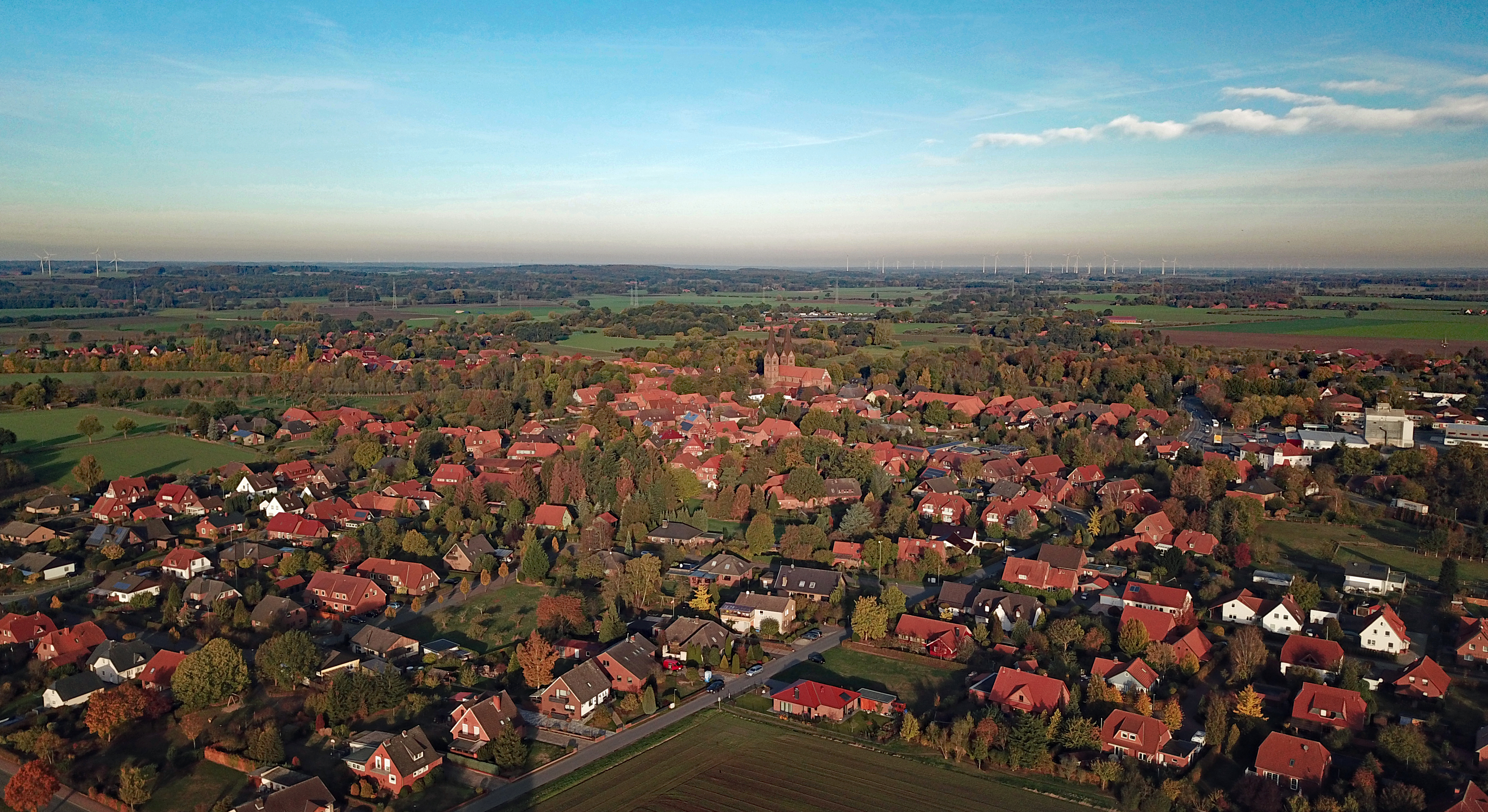 Bücken (Samtgemeinde Hoya, Lower Saxony, Germany)